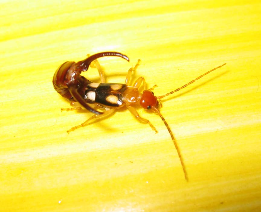 Male earwig of species Forficula smyrnensis in defensive posture.